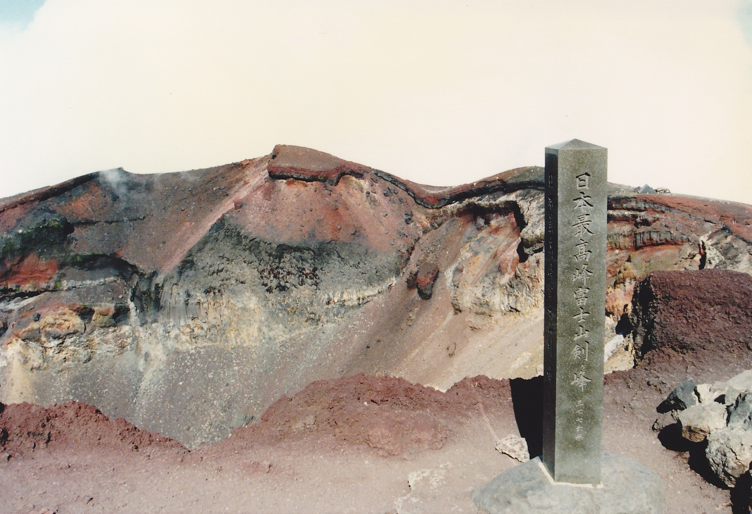 Mount Fuji top and Volcanic crater in Japan.